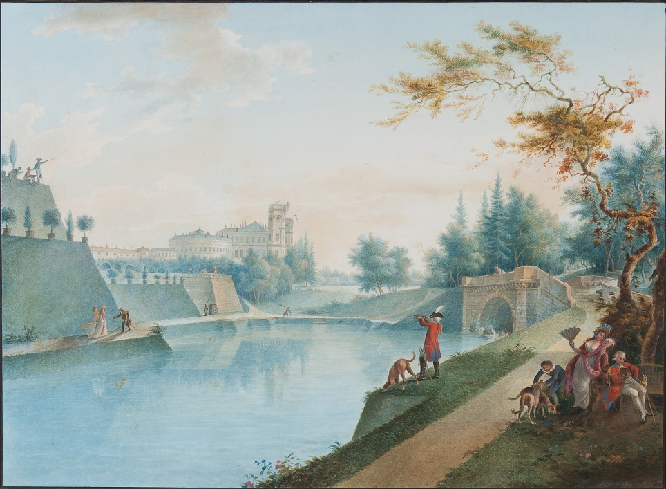 Gatchina Park